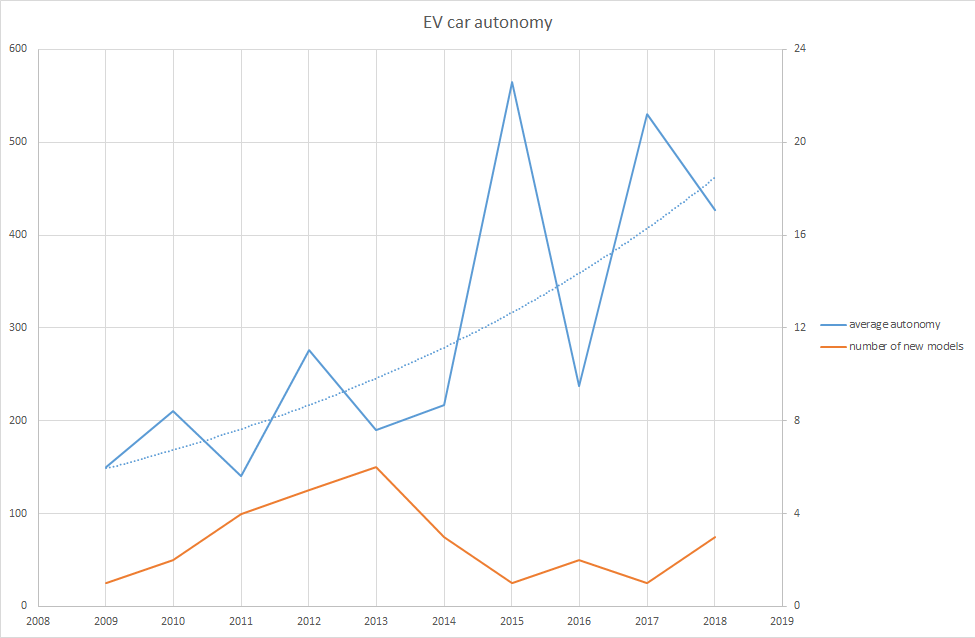 Evolution of the average range of the new full electric cars (blue line). In orange, the number of new models for each year